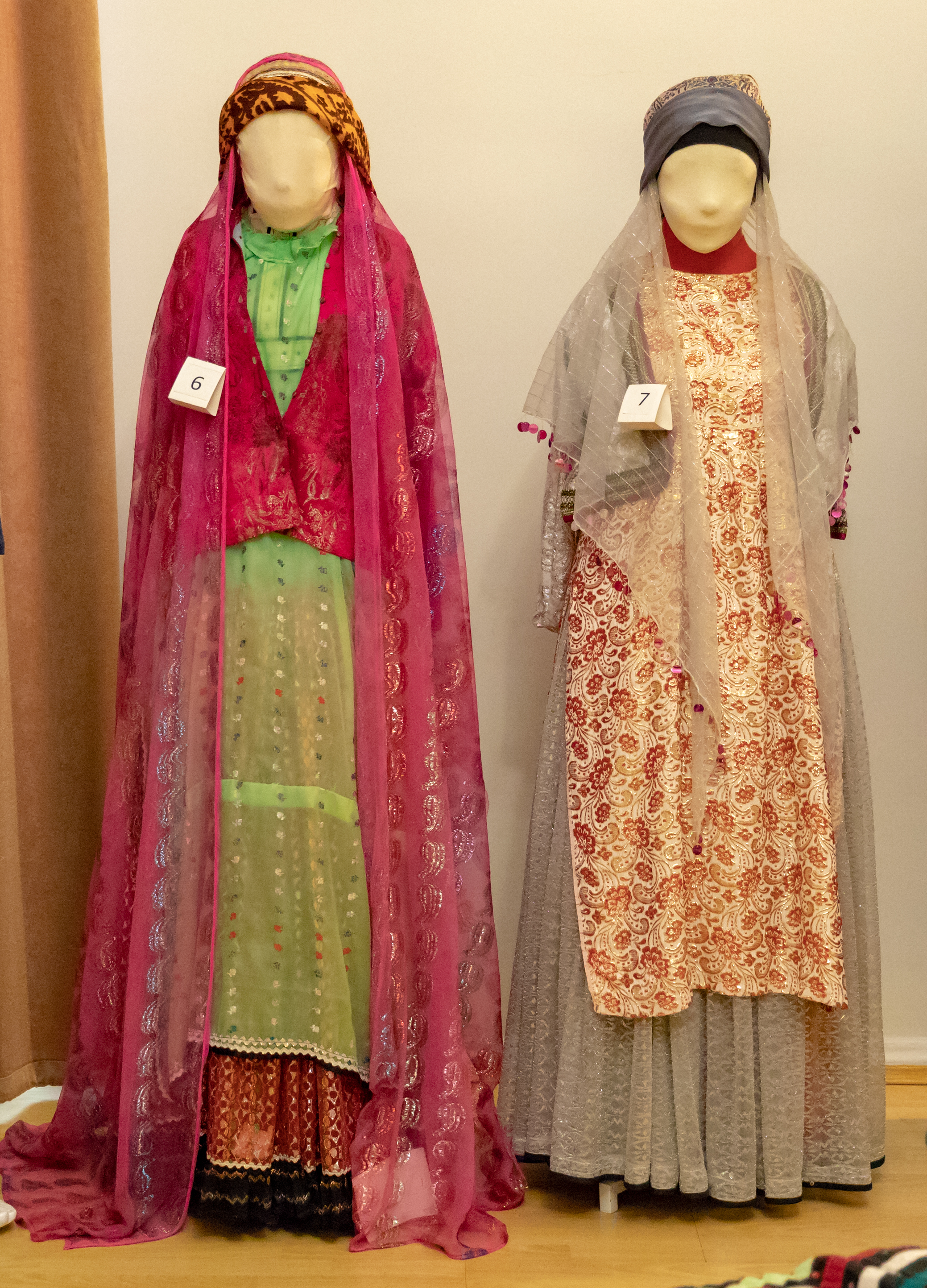 SaadAbad Palace, Tehran, Iran Royal costume Museum National Dresses of Qashqai women